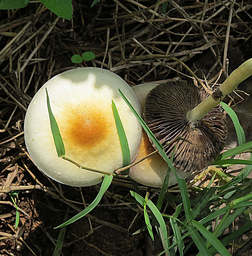 A psychoactive species found in the Neotropics and in southeast Asia. Here near a warm springs in the Darien Province of Panama.